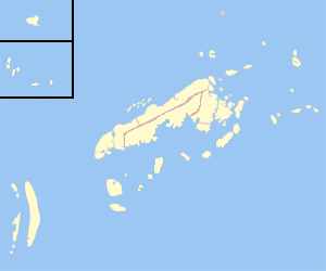 Blank Map of Tawi-Tawi